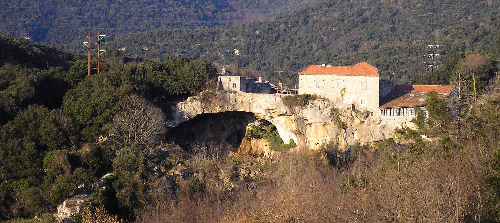 Finale Ligure (SV, Italy): Arma delle Manie